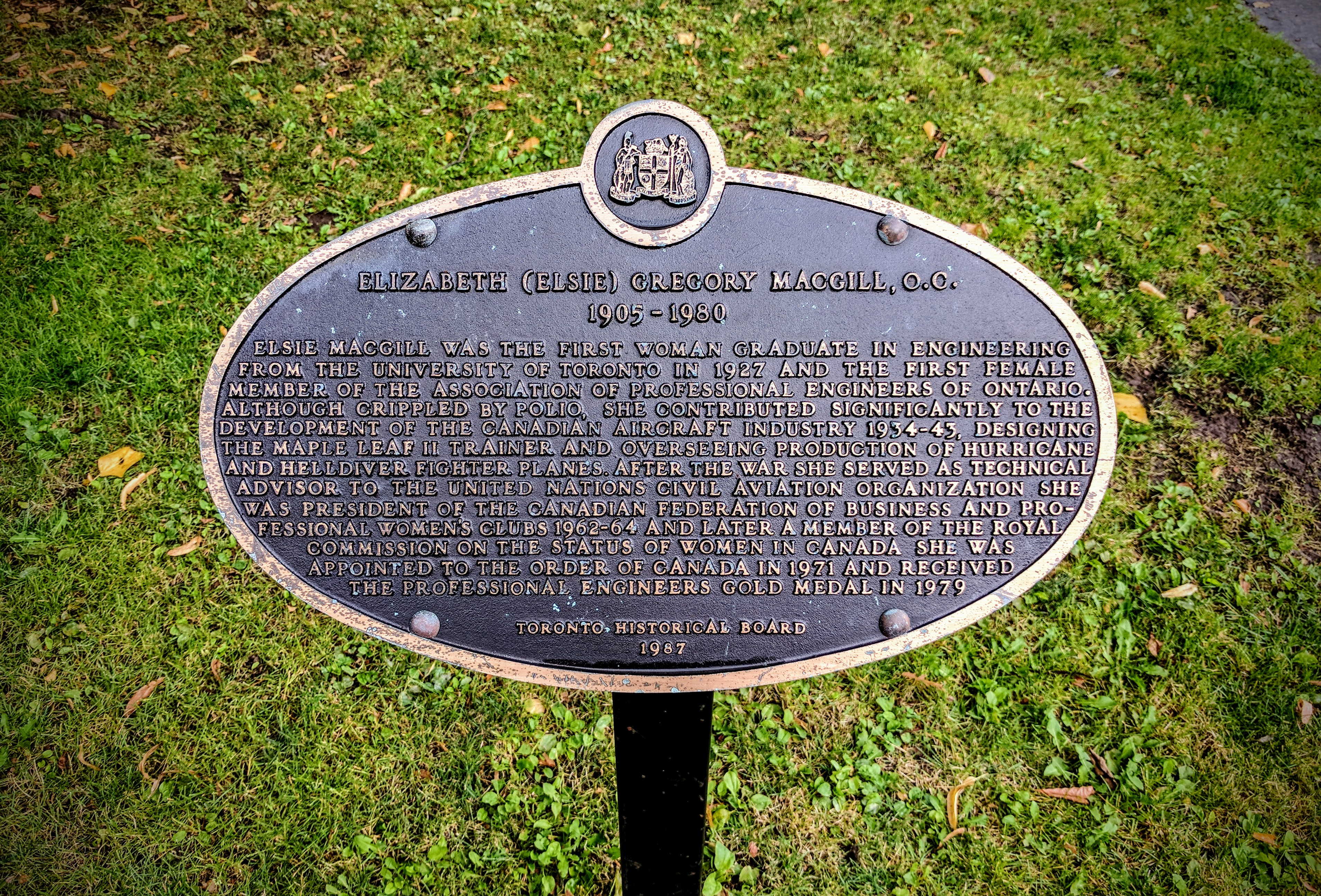 A plaque commemorating Elsie MacGill (1905-1980), the first female engineering graduate in Canada and an important aeronautic engineer. Placed by the Toronto Historical Board in front of the Sandford Fleming Building at the University of Toronto.